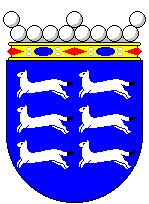 Coat of arms of historical province of Ostrobothnia in Finland